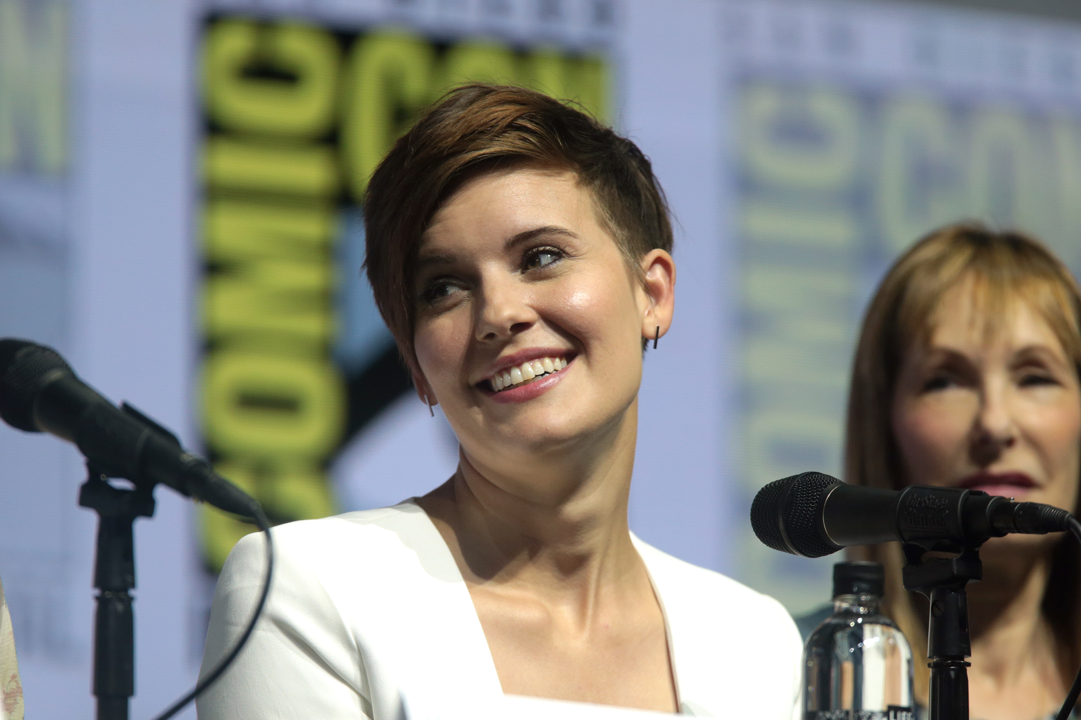 Maggie Grace speaking at the 2018 San Diego Comic Con International, for "Fear the Walking Dead", at the San Diego Convention Center in San Diego, California.